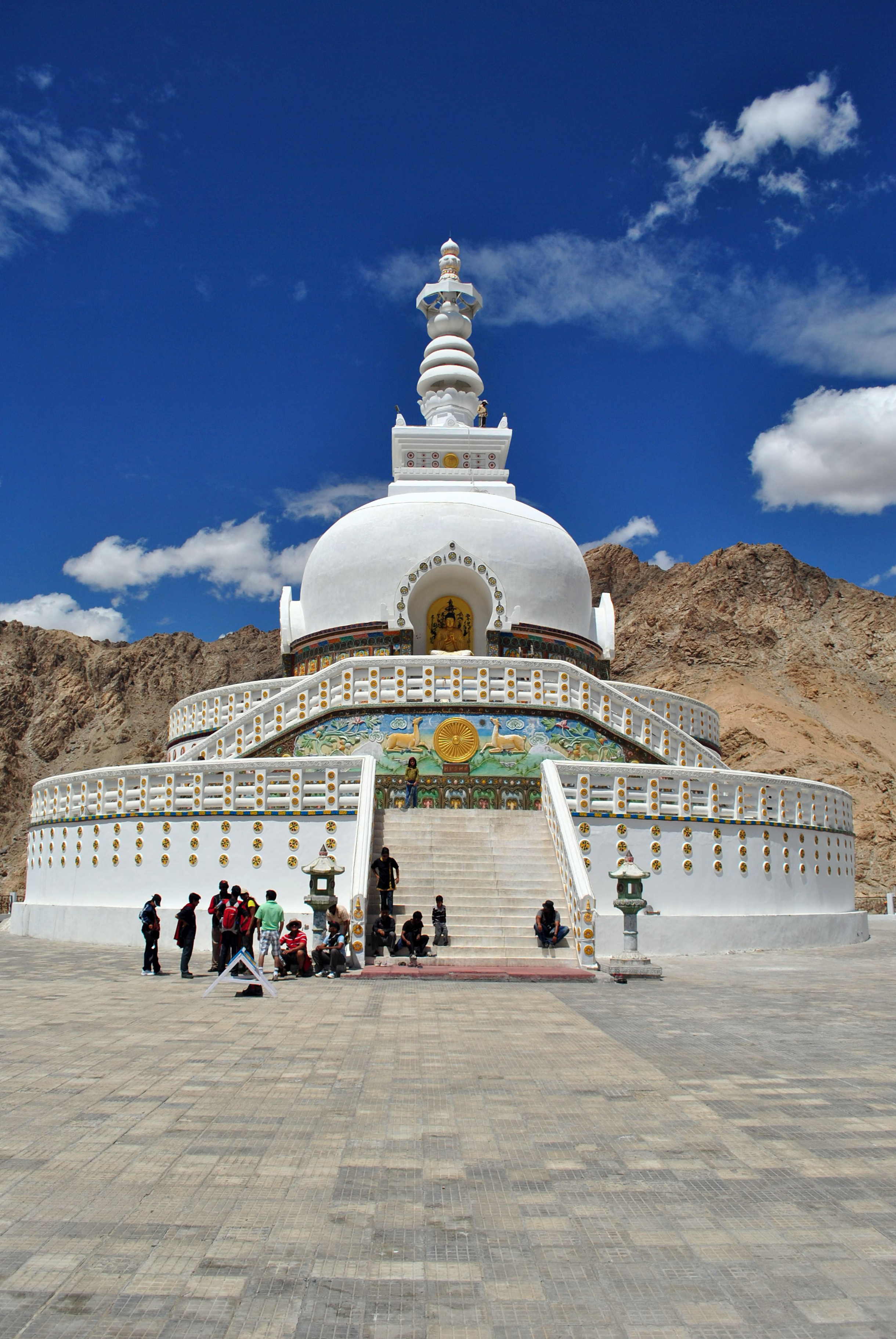 Shanti stupa in Leh